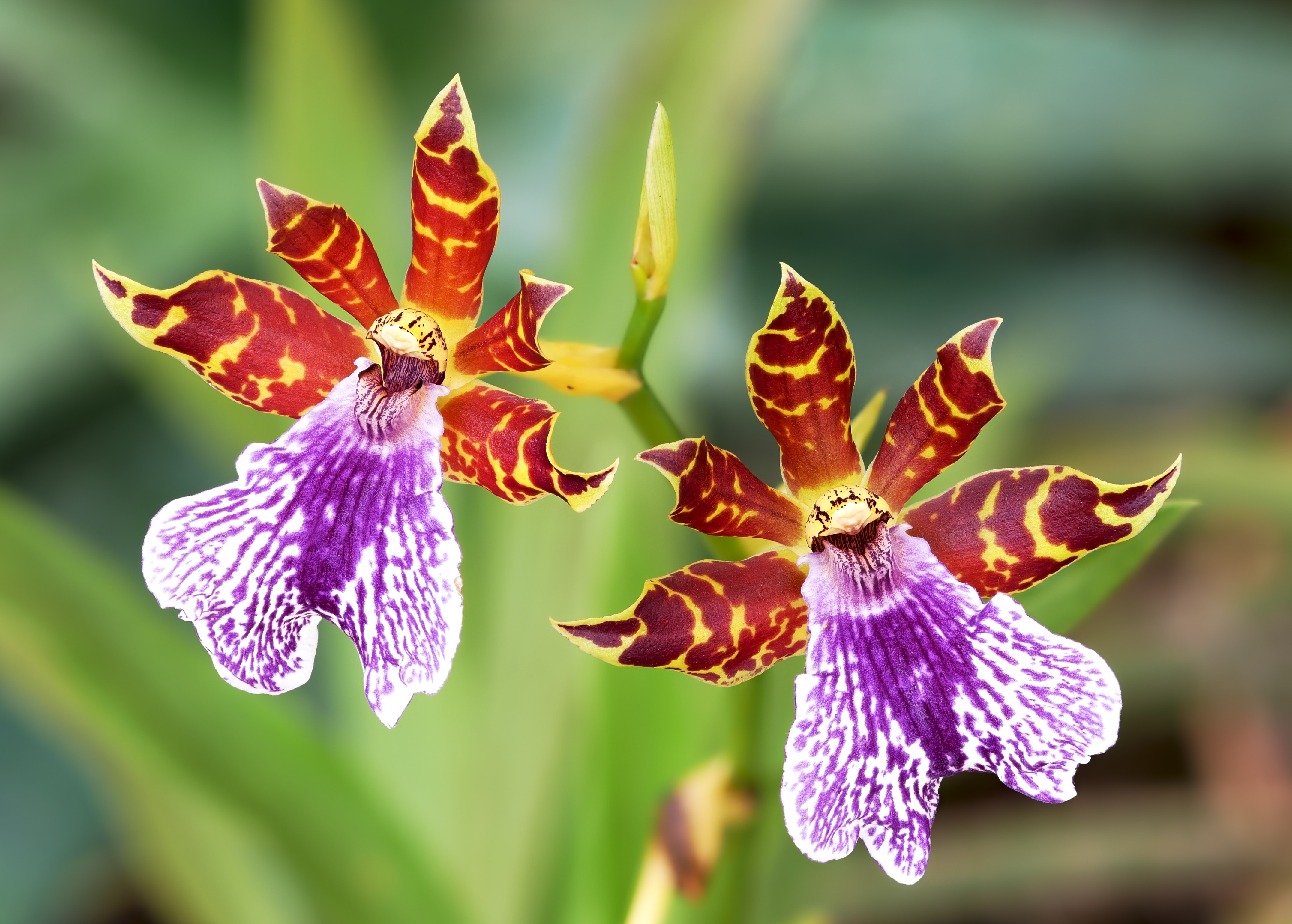 Orchid Zygopetalum 'Dunkle Blüte'. Ljubljana Botanical Garden, Slovenia This photograph was taken with a Panasonic Lumix DMC-G85/G80